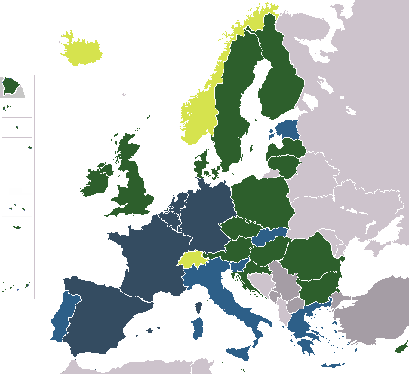 Multispeed Europe - EU / European Economic Area - as of 2011 EU countries integrated in all areas EU countries with exceptions Non-EU countries integrated into the Single Market and Schengen